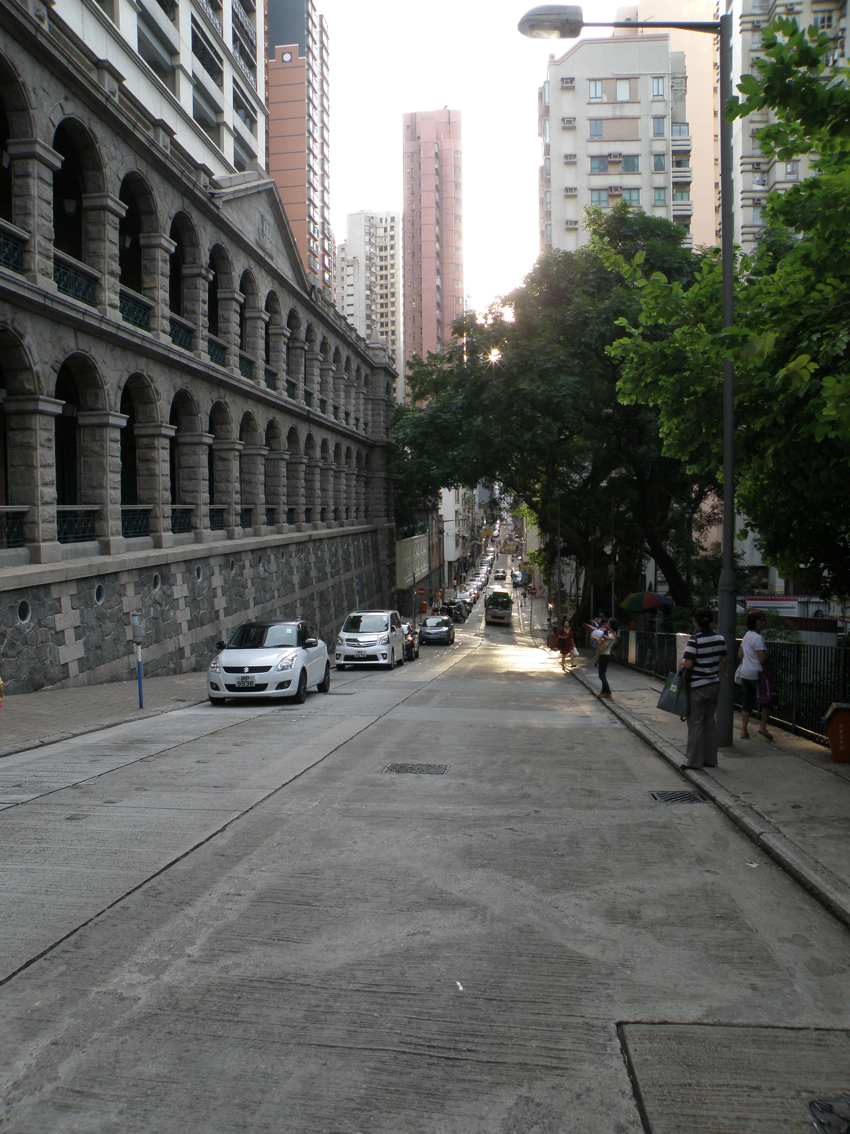 High Street in Sai Ying Pun, Hong Kong.